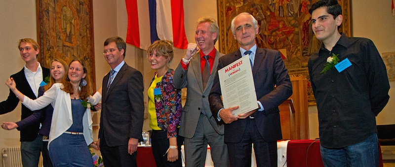 Uitreiking Manifest van Morgen met o.a. Jan Peter Balkenende en prof rectorf maginificus dr. Herman van der Zwaan (Universiteit Utrecht)